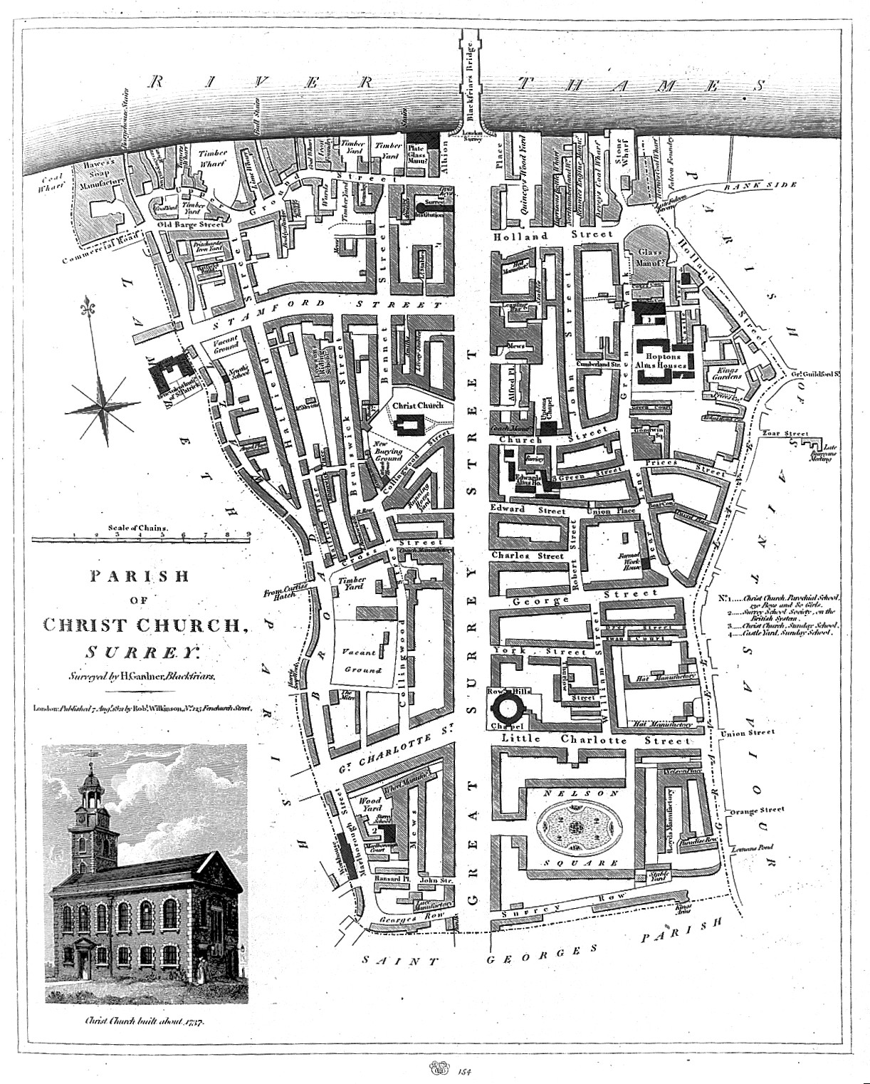 Parish of Christchurch, Surrey. Rare Books Keywords: surrey; Topography; Great Britain